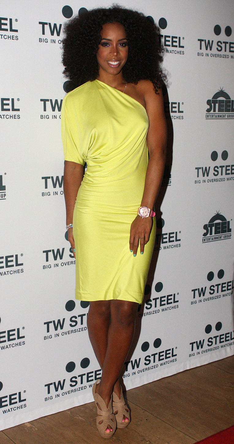 Kelly Rowland Hosts TW Steel Events At Ivy Penthouse; Sydney, Australia 2012.